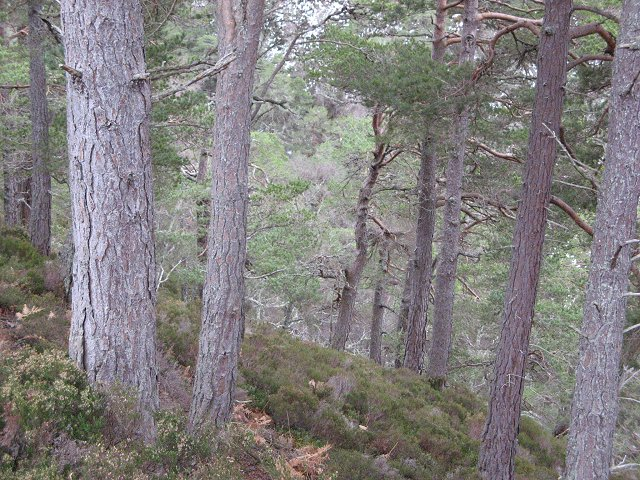 Forest above the Allt Ruadh The Allt Ruadh runs through a deep ravine above the Forestry Commission boundary. Looking down through mature scots pines (complete with crested tits) towards the hidden burn.